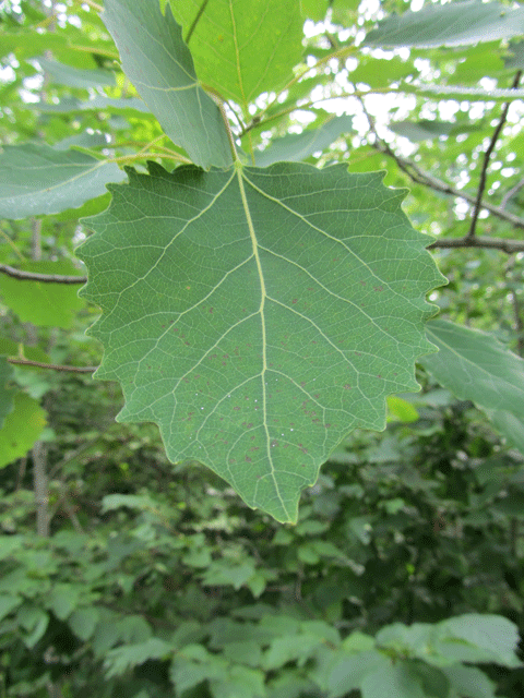 Found in Copper Falls State Park, Wisconsin.